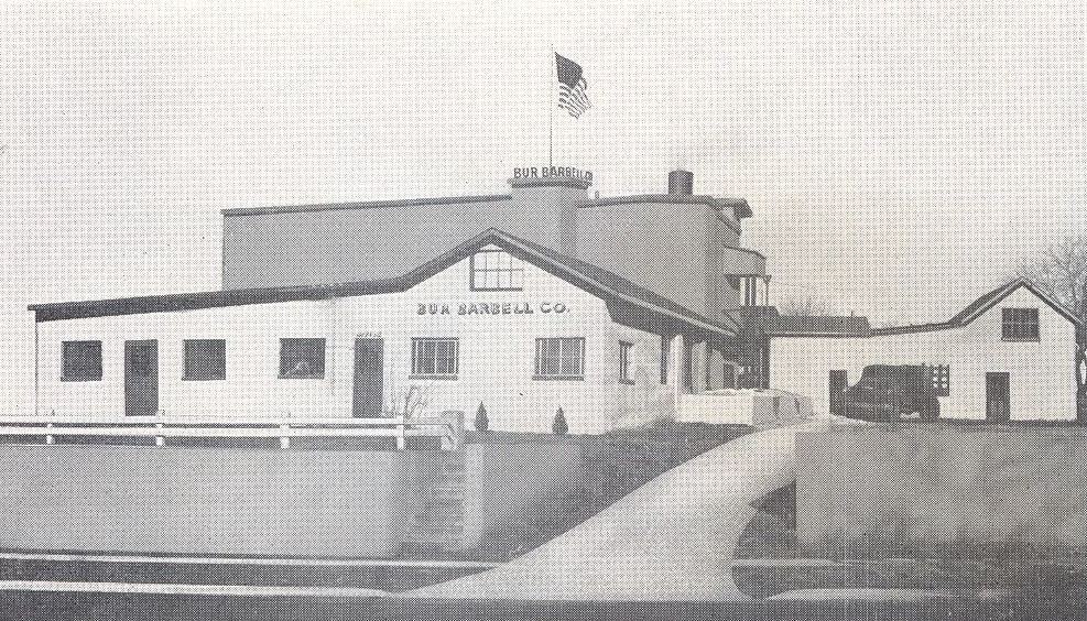 Picture of BUR Barbell Lyndhurst Factory - 1950's